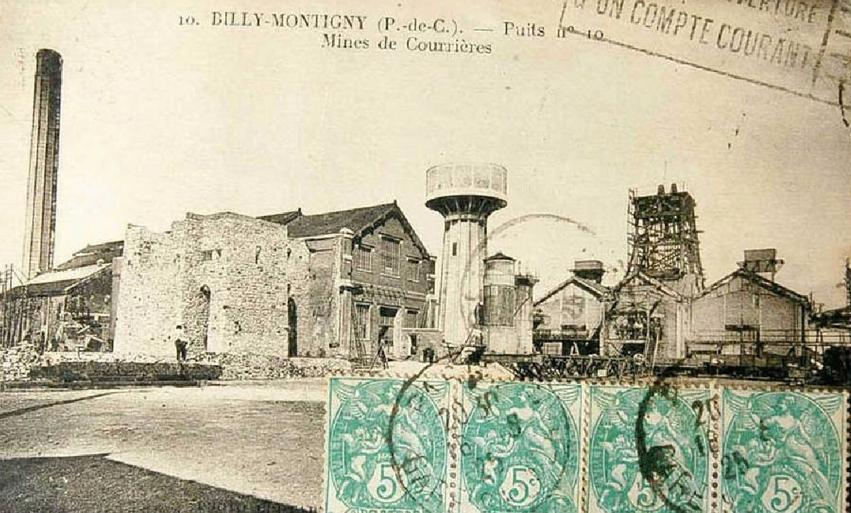 Billy-Montigny, France.